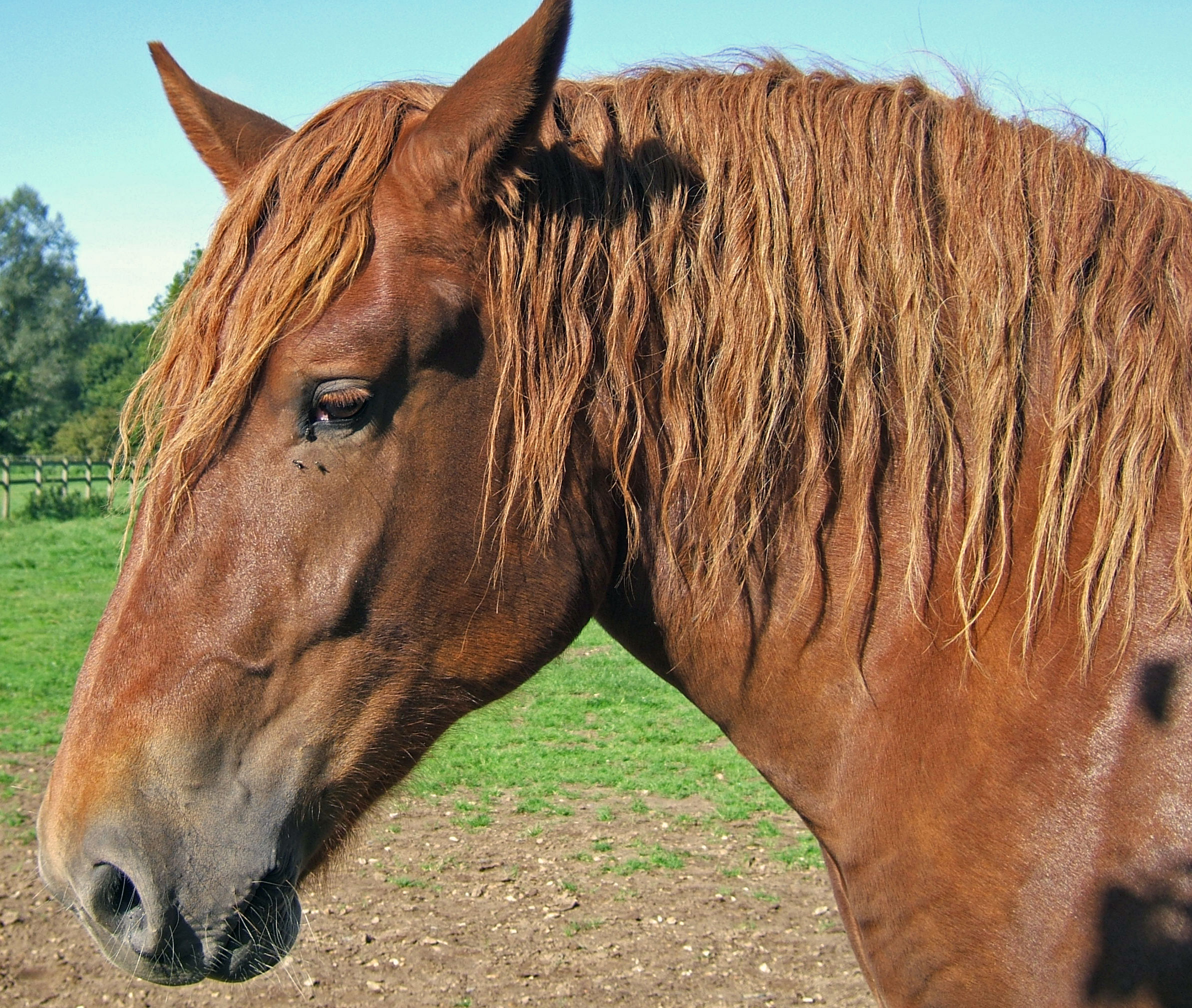 A Suffolk Punch, a breed of draft horse that is nearly extinct.